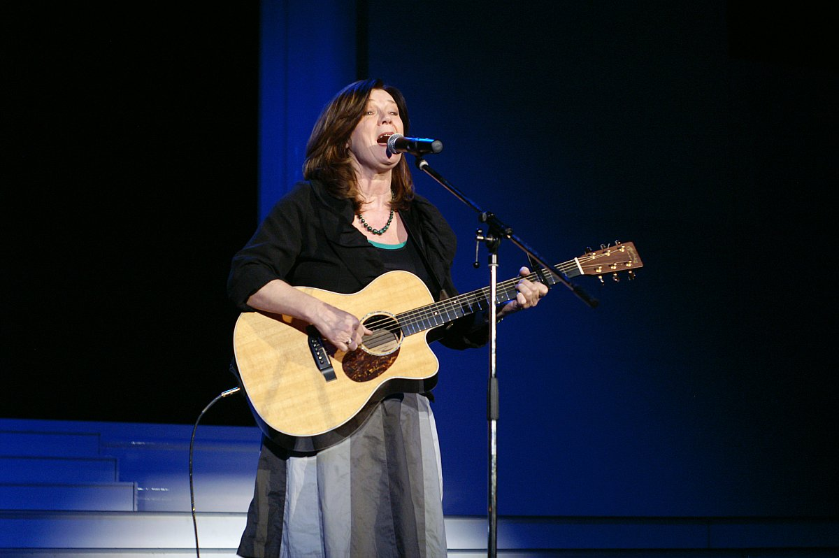 Lenny Kuhr performing at the COC Songfestival in Roermond.